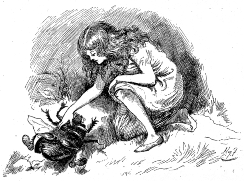 Illustration by Harry Furniss in Sylvie and Bruno